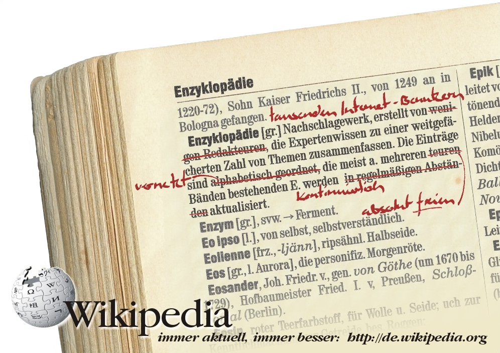 The Wikipedia in comparison to a normal and ordinary encyclopedia